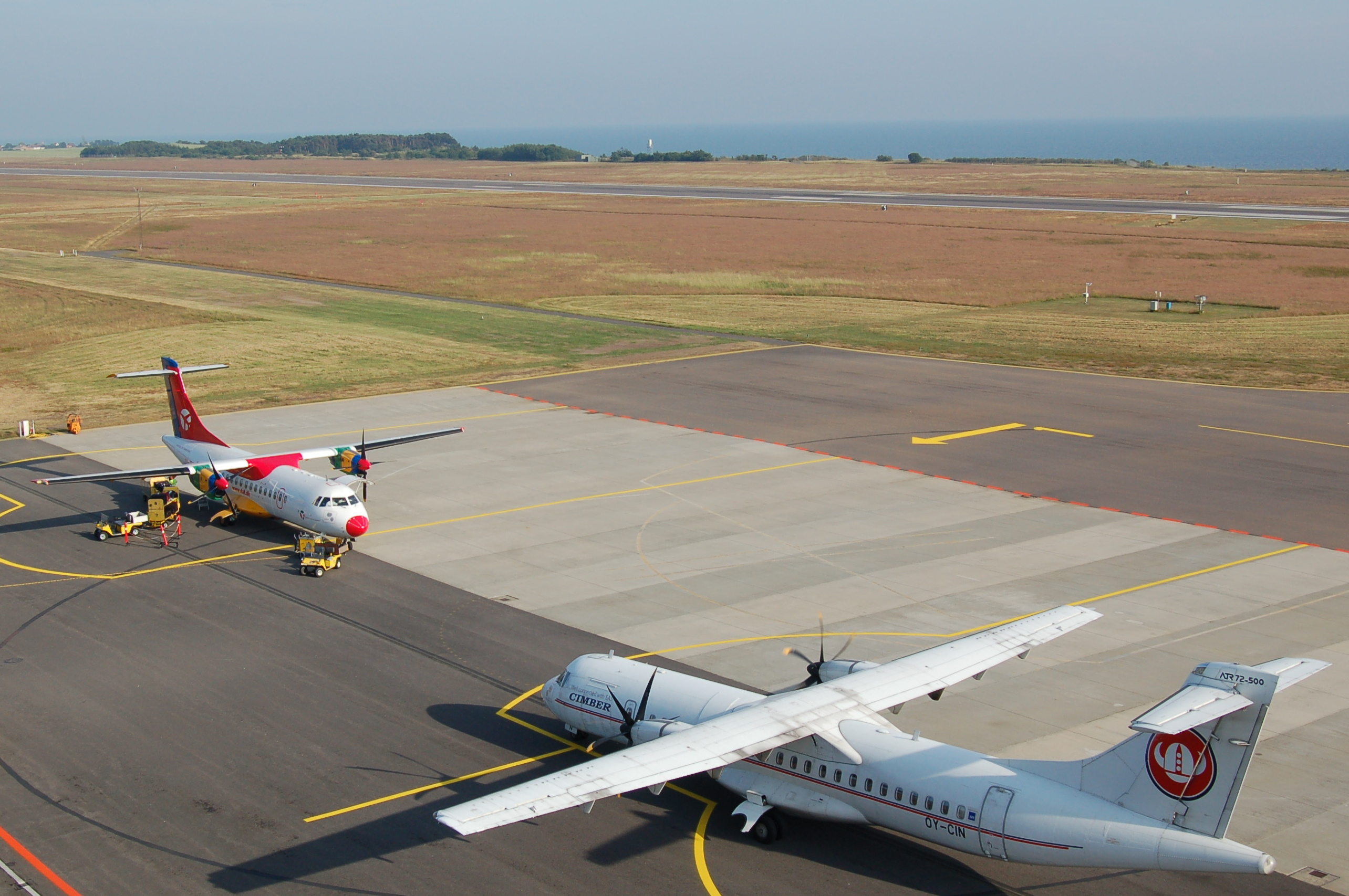 Photo of ATR 42-300 (left) and ATR 72-500 on apron at EKRN (Bornholm airport)